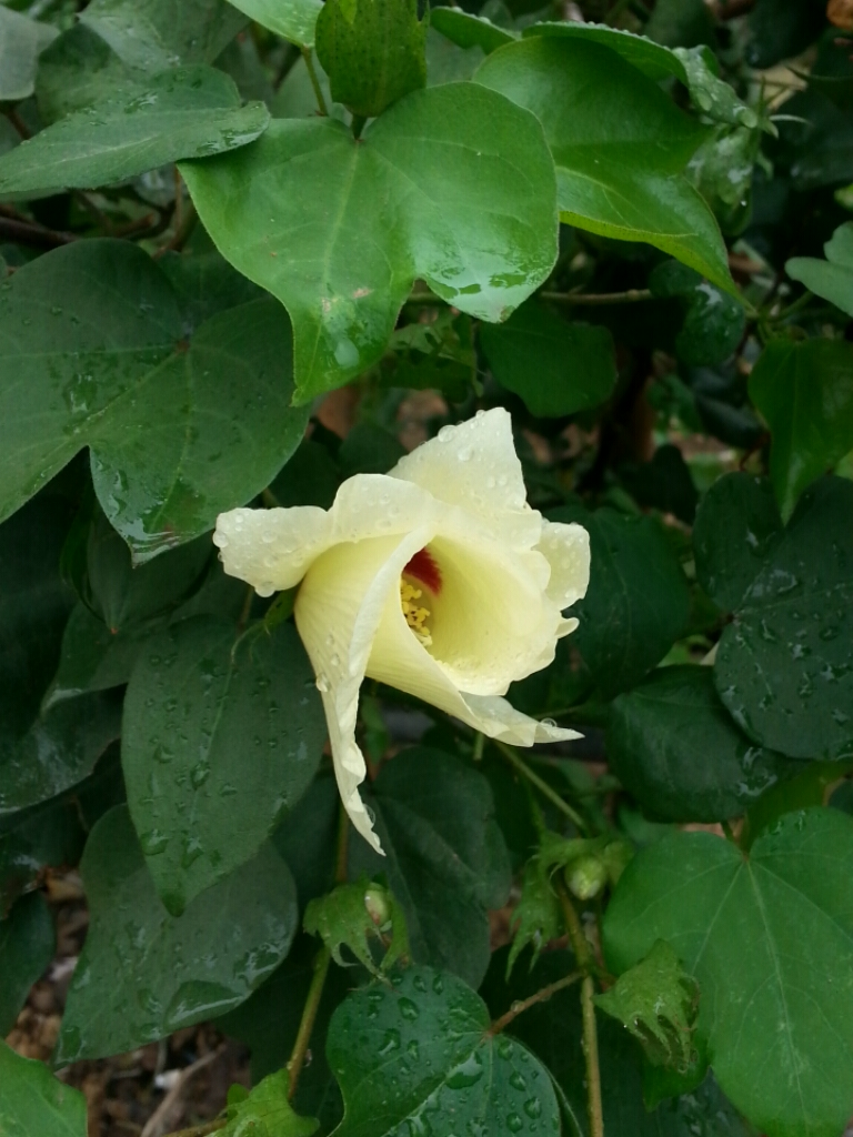 FLOR DE ALGODÓN UBICADA EN CASA DEL CERRO VILLA NUEVA A 30 MIN DE LA CAPITAL DEL MUNICIPIO SAN GENARO DE BOCONOITO. EDO PORTUGUESA